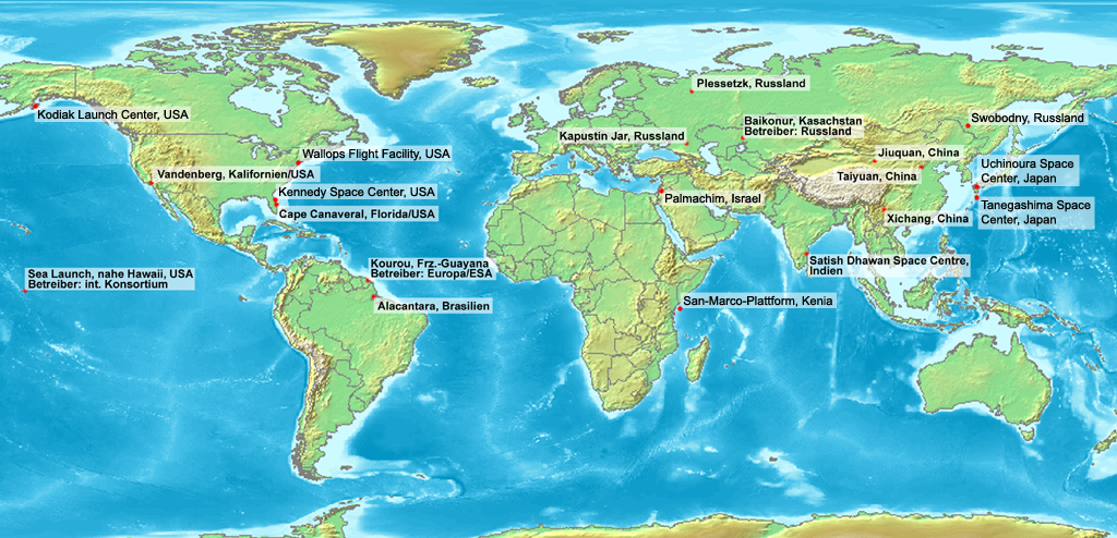 Spaceports worldwide